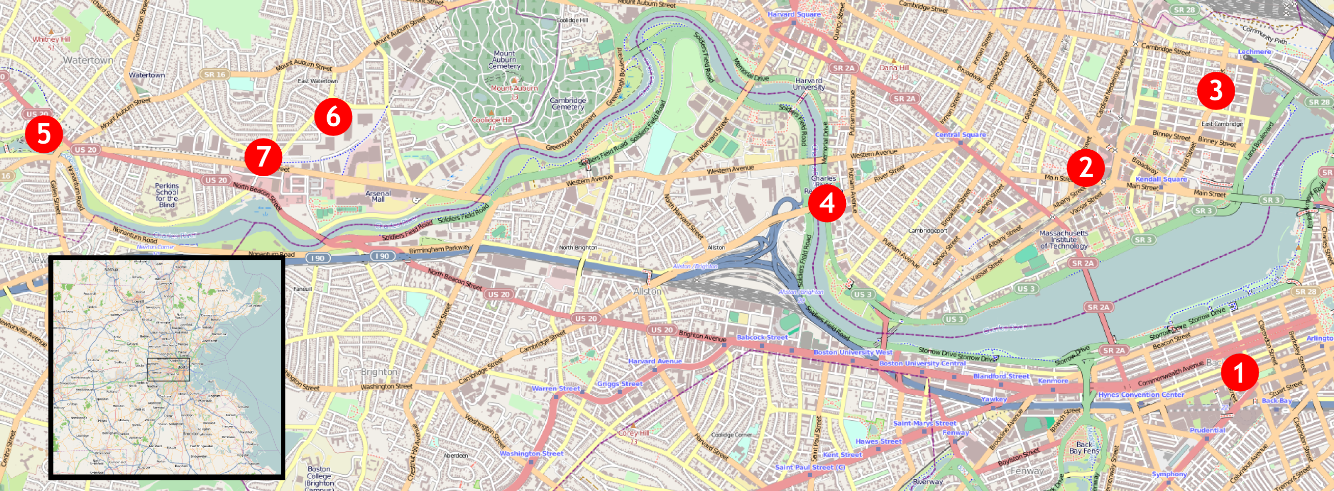 Based on the data from [1], but using OpenStreetMap data for mappingThis map of Boston was created from OpenStreetMap project data, collected by the community. This map may be incomplete, and may contain errors. Don't rely solely on it for navigation.